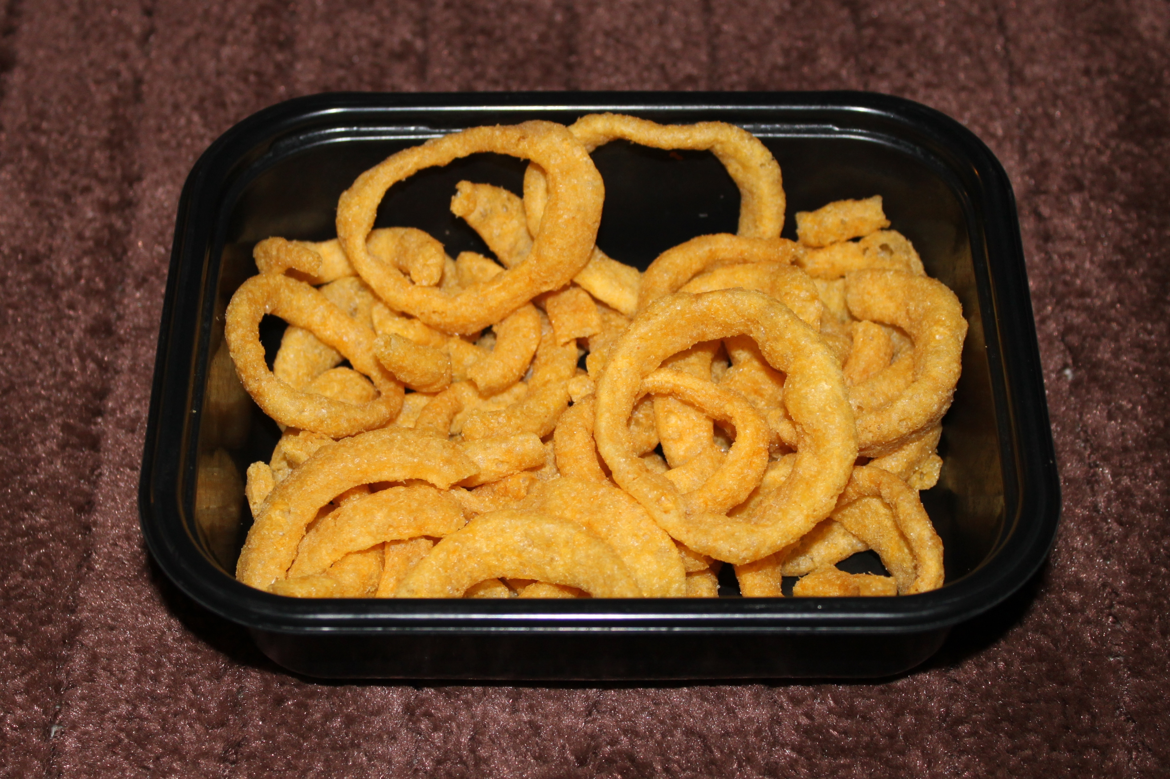 Regular flavored Funyuns, a onion flavored snack marketed by Frito-Lay Inc.